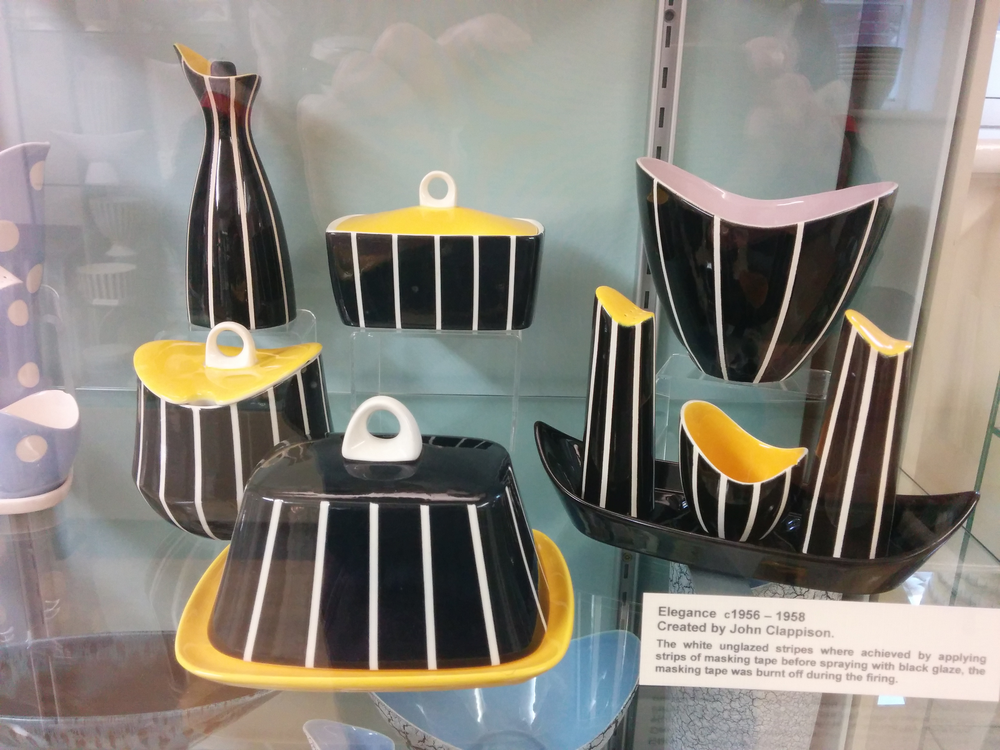 elegance design 1958/Hornsea pottery now in the museum, Hornsea, East Riding of Yorkshire, England.